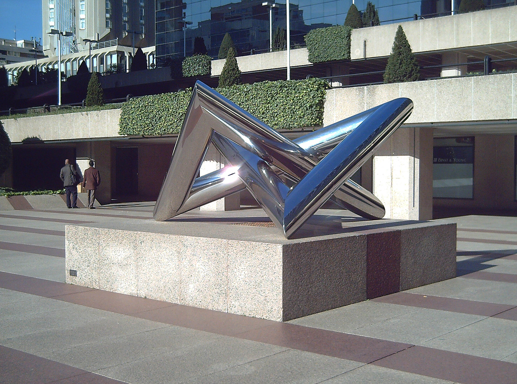 Sculpture at the Plaza de Picasso ("Picasso Square"), in AZCA business park (Madrid, Spain). Made of steel by José María Cruz Novillo (b. 1936) in 1989.